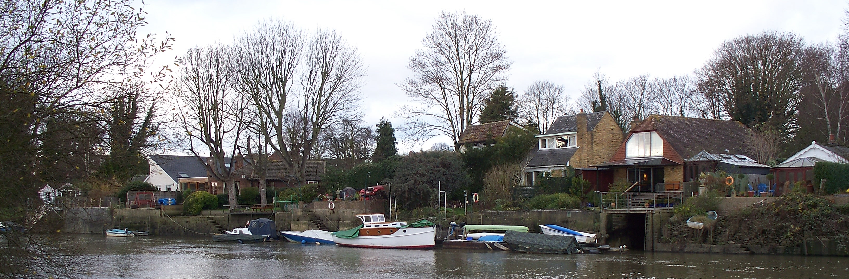 Housing on Eel Pie Island, London